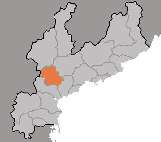 Map of Yonggwang, Hamgyong-namdo, DPRK, 2006